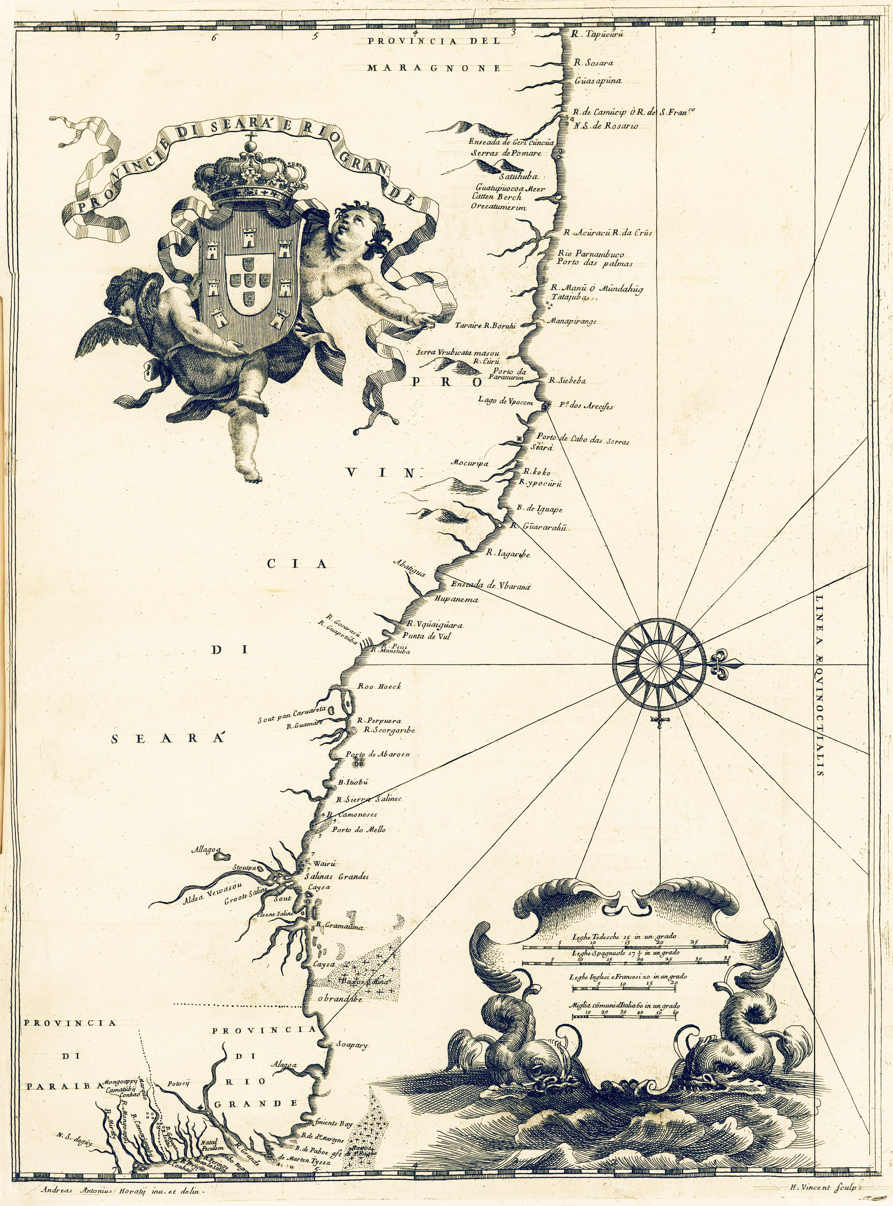 Map of the provinces of Ceará and Rio Grande (1698)